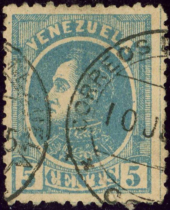 5 centavos Venezuela issue 1880, Bolivar, large bridge cancelled CORREOS ... Michel N°23y (thick paper).